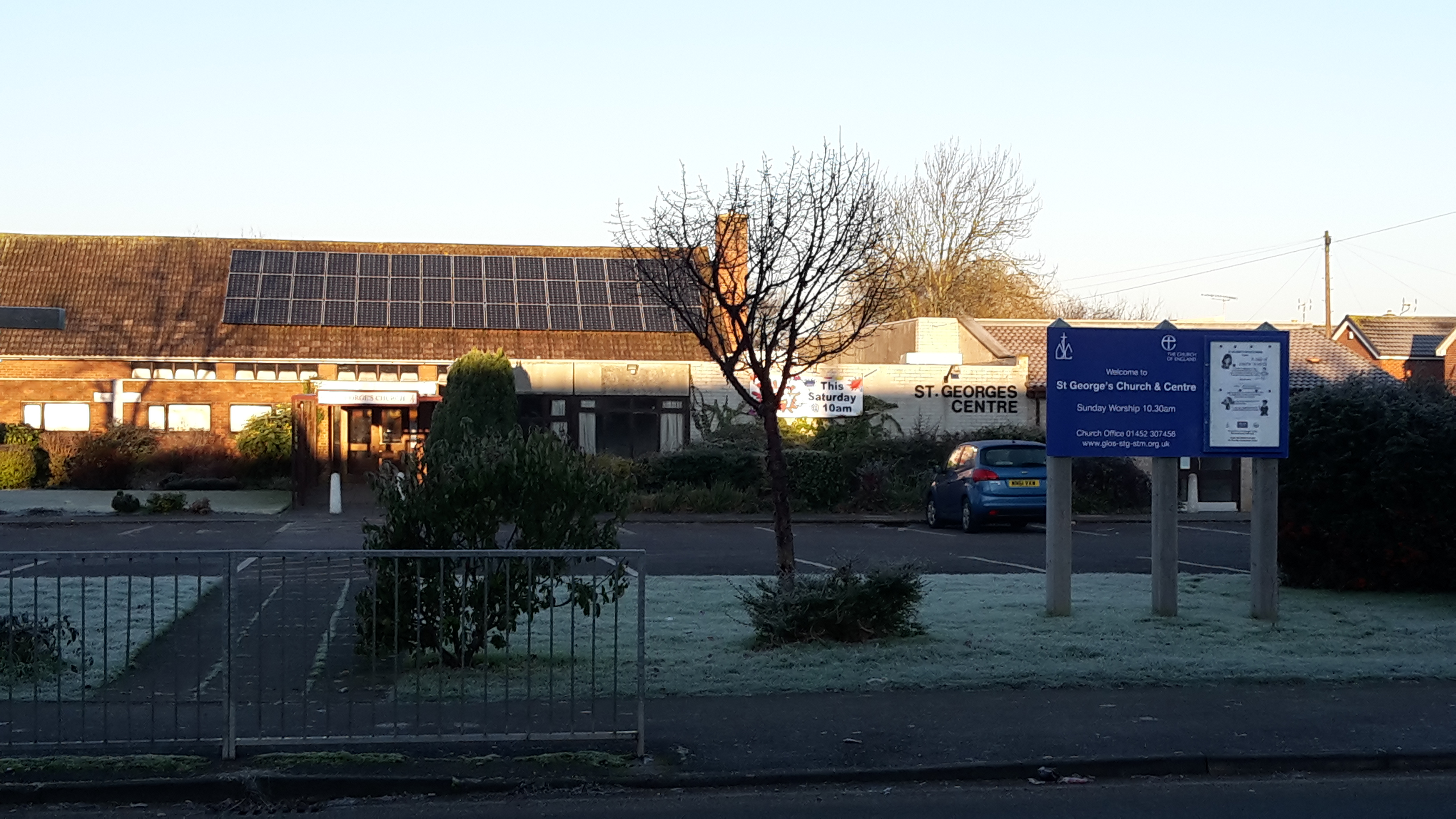 St George's parish church, Grange Road, Tuffley, Gloucester